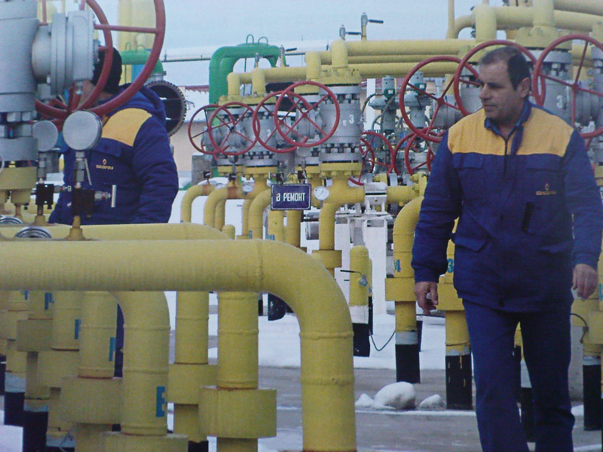 Chiren gas storage facility, Bulgaria